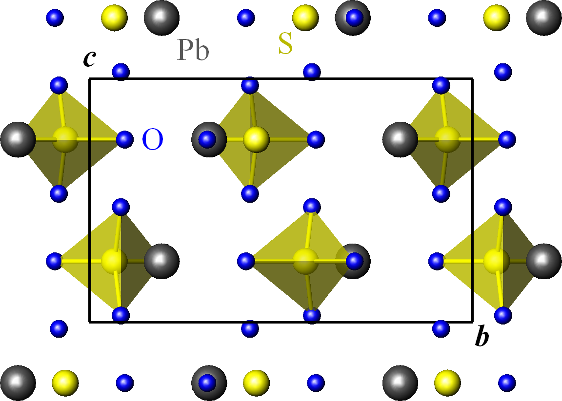 Crystal structure of anglesite, PbSO4, Pbnm, projected onto the (b,c) plane. Gray: lead atoms, yellow: sulfur, blue: oxygen. Data source: S.D. Jacobsen, J.R. Smyth, R.J. Swope, R.T. Downs, "Rigid-body character of the SO4 groups in celestine, anglesite and barite", The Canadian Mineralogist 36, 1998, p. 1053-1060